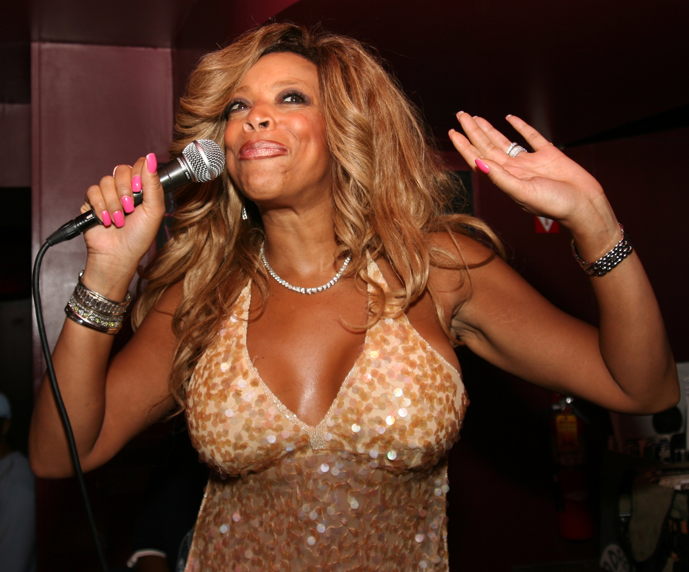 Wendy Williams in June 2005